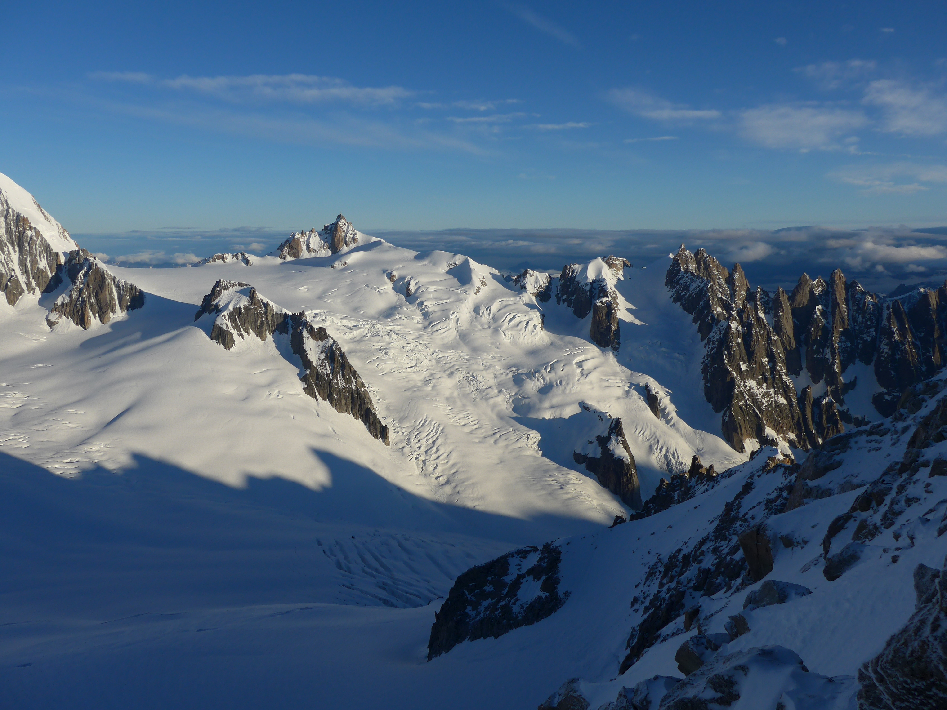 Aiguilles Marbrées from soth east